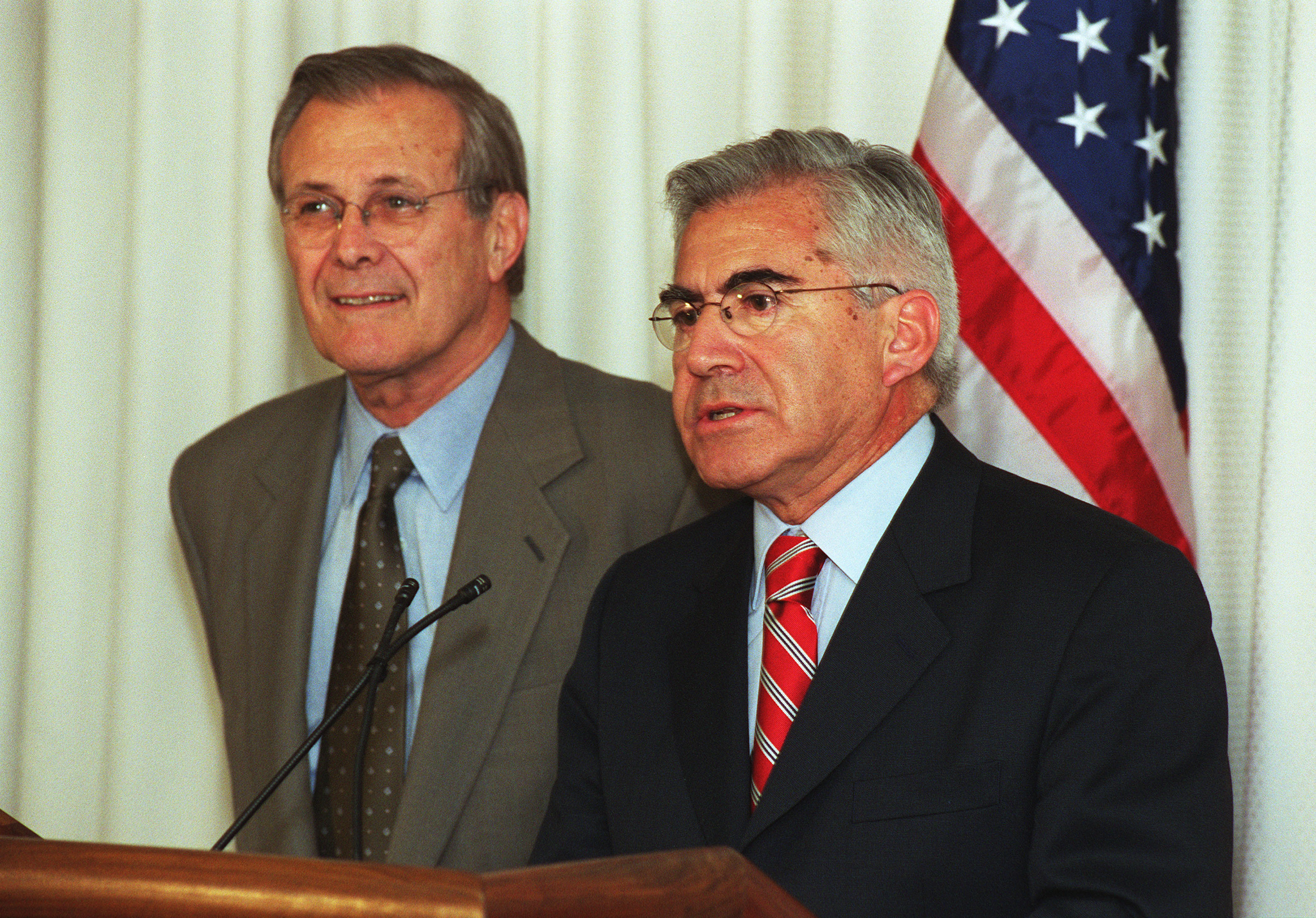 Following their meeting at the Pentagon on May 24, 2001, Secretary of Defense Donald H. Rumsfeld (left) and Minister of Defense Mario Fernandez of the Republic of Chile (right) take questions from news reporters. Fernandez, in Washington, D. C., to deliver the keynote address at the Seminar on Research and Education in Defense and Security Studies being held at the National Defense University, used the opportunity to stop by the Department of Defense to discuss some issues of mutual interest with Rumsfeld. Chile's planned purchase of U.S. F-16 fighter aircraft was one of several topics they discussed.